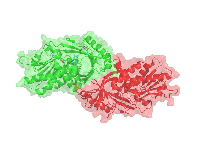 hDAAO protein connected in a head-to-head fashion. Image generated based on RCSB PBD 2E48, but edited to highlight the connection of the two monomers. Colors chosen to emphasize the 2 chains. FAD cofactor is also bound in each subunit.